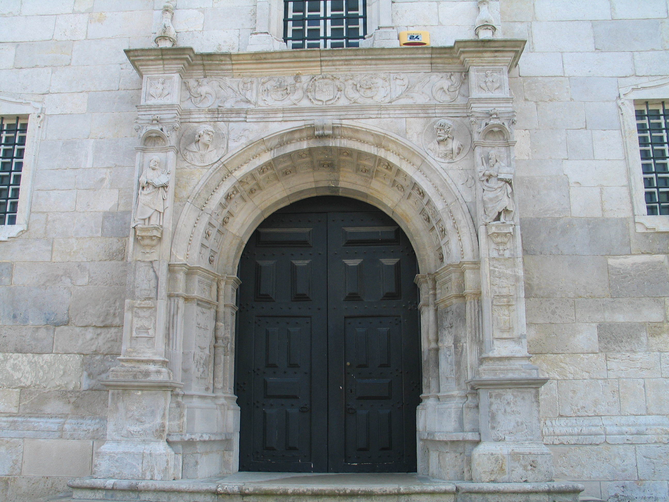 Portal of the church of Atalaia (Vila Nova da Barquinha, Portugal)